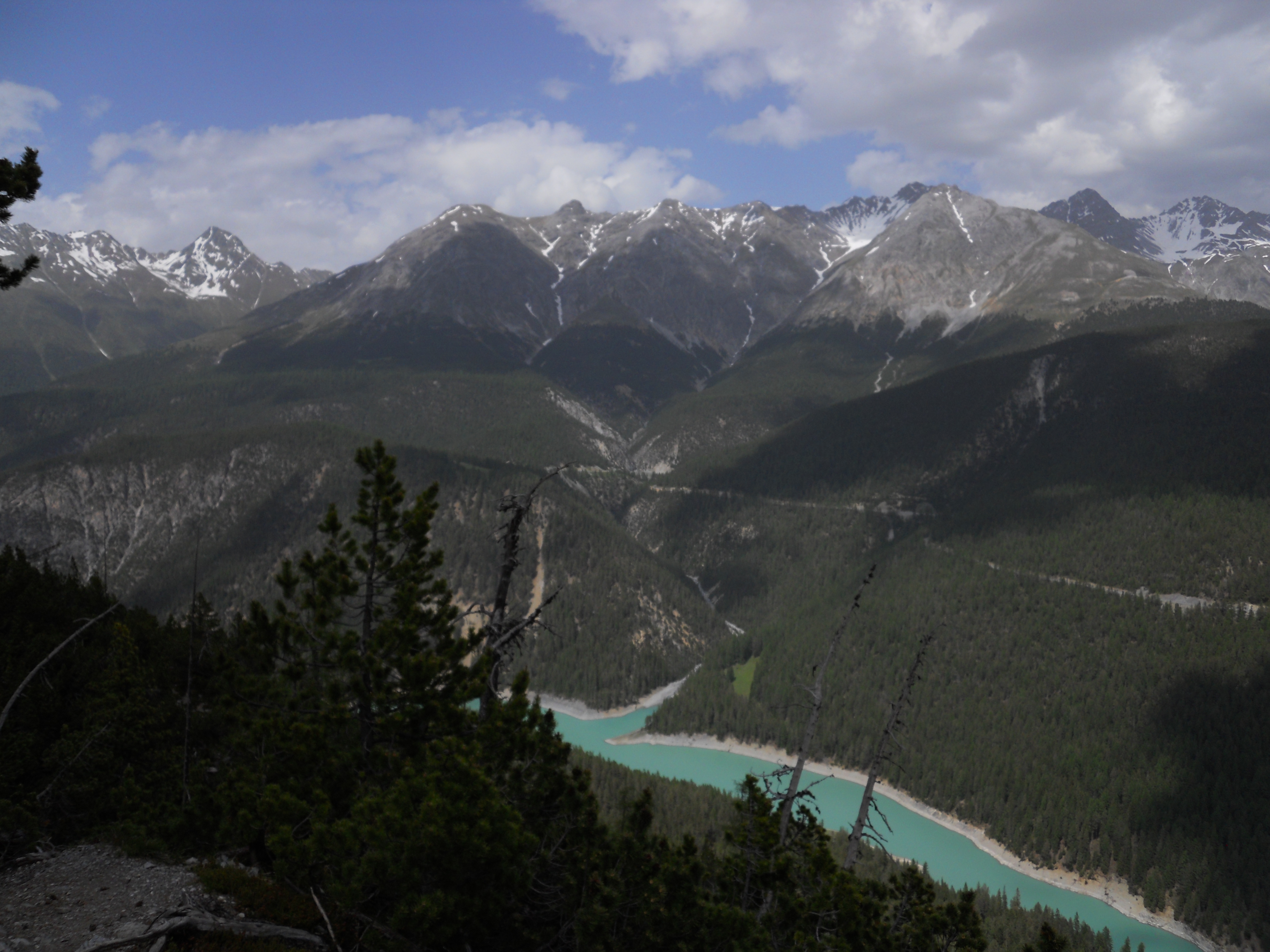 View into the Valley of the Creek Ova Spin with the Lake Lai da Ova Spin in the Valley Val dal Spöl, Canton of Graubünden, Switzerland